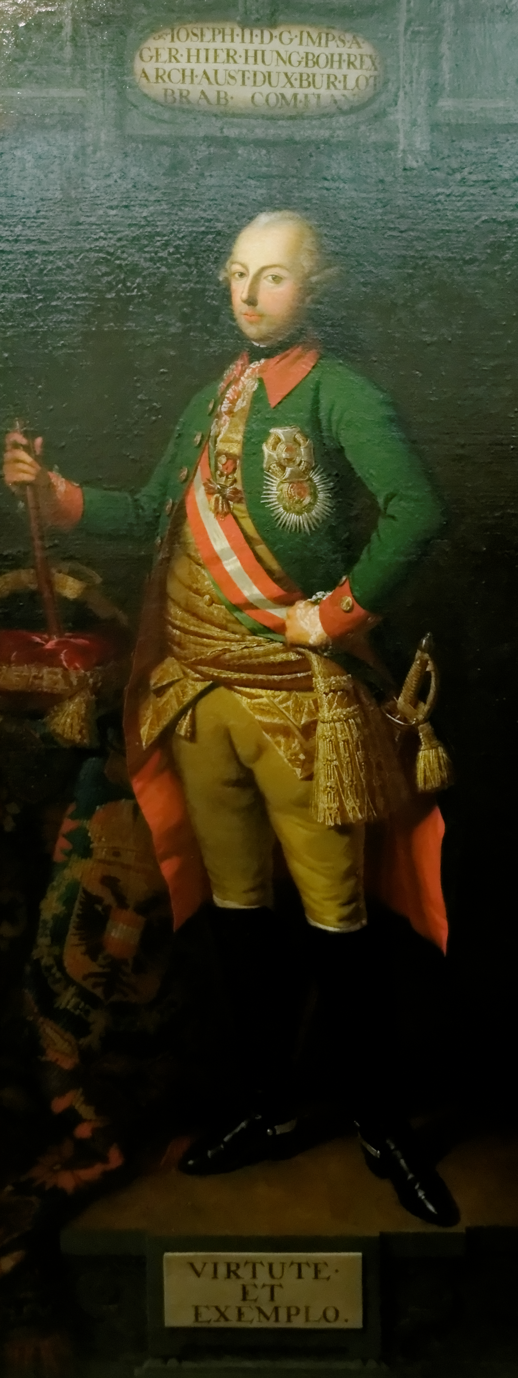 Emperor Joseph II, Holy Roman Emperor (1741-1790)